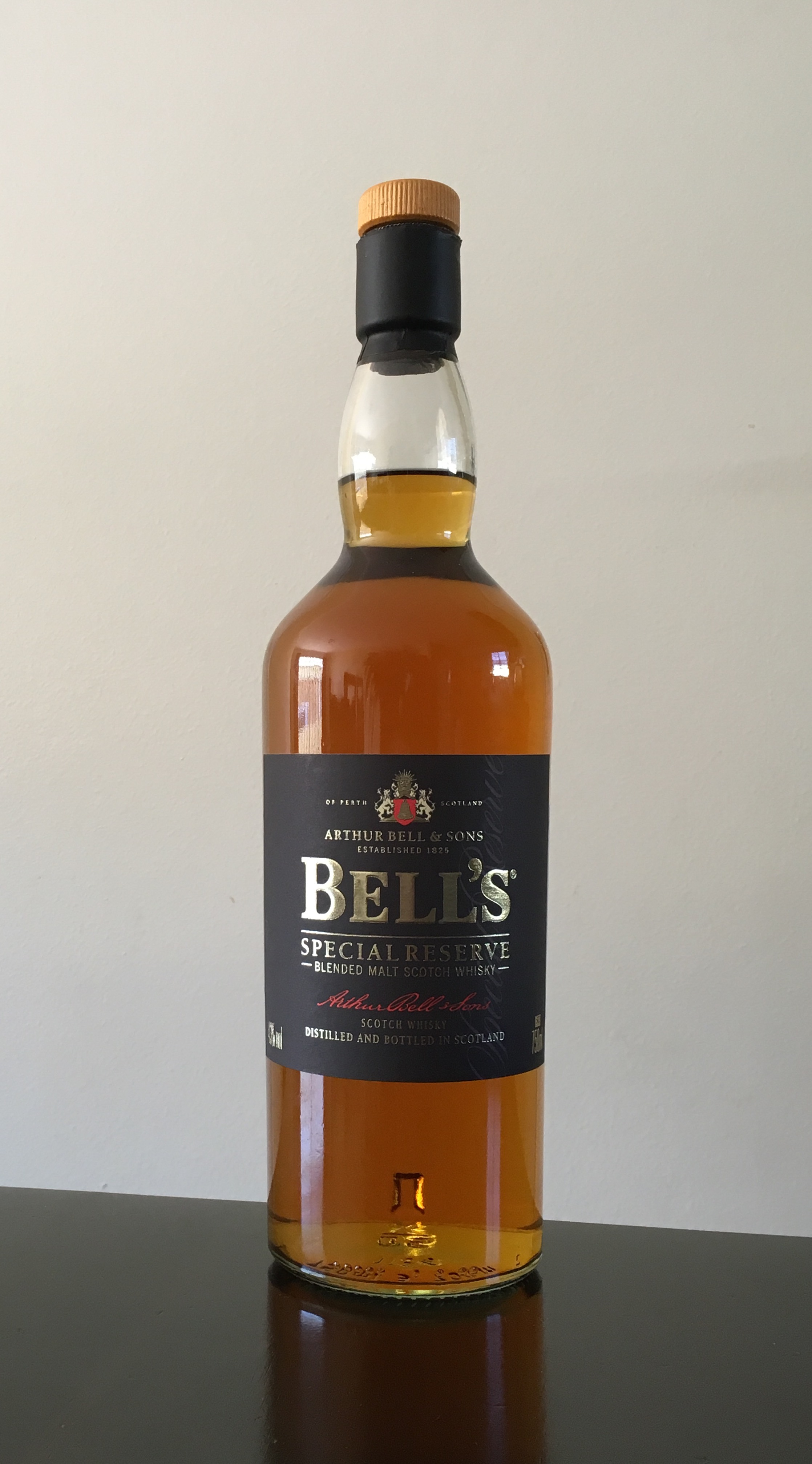 Bells Special Reserve Scotch